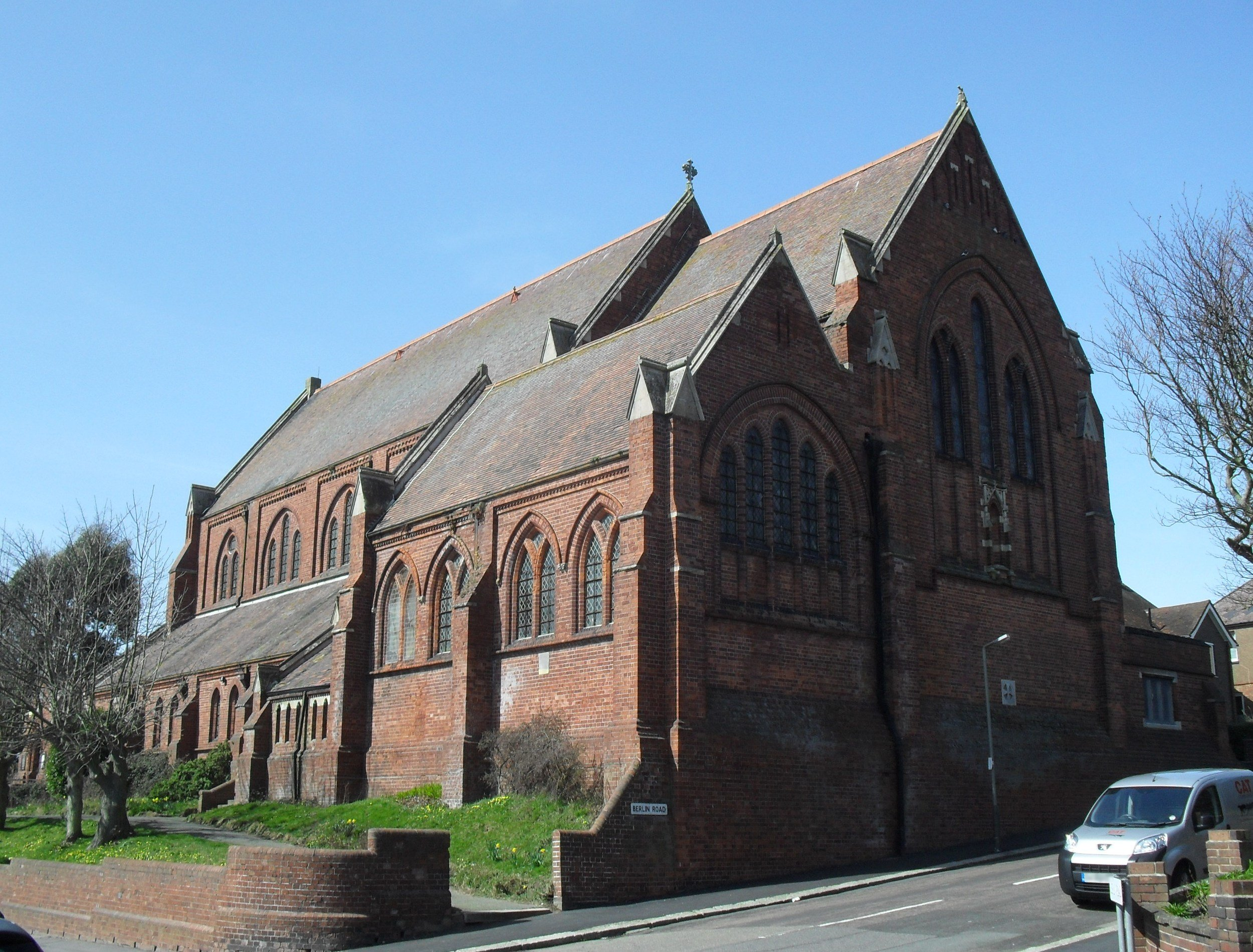 All Souls Church, Athelstan Road, Clive Vale, Hastings, East Sussex, England. Built in 1890 by Sir Arthur Blomfield; now redundant. Listed at Grade II* by English Heritage (NHLE Code 1293681)